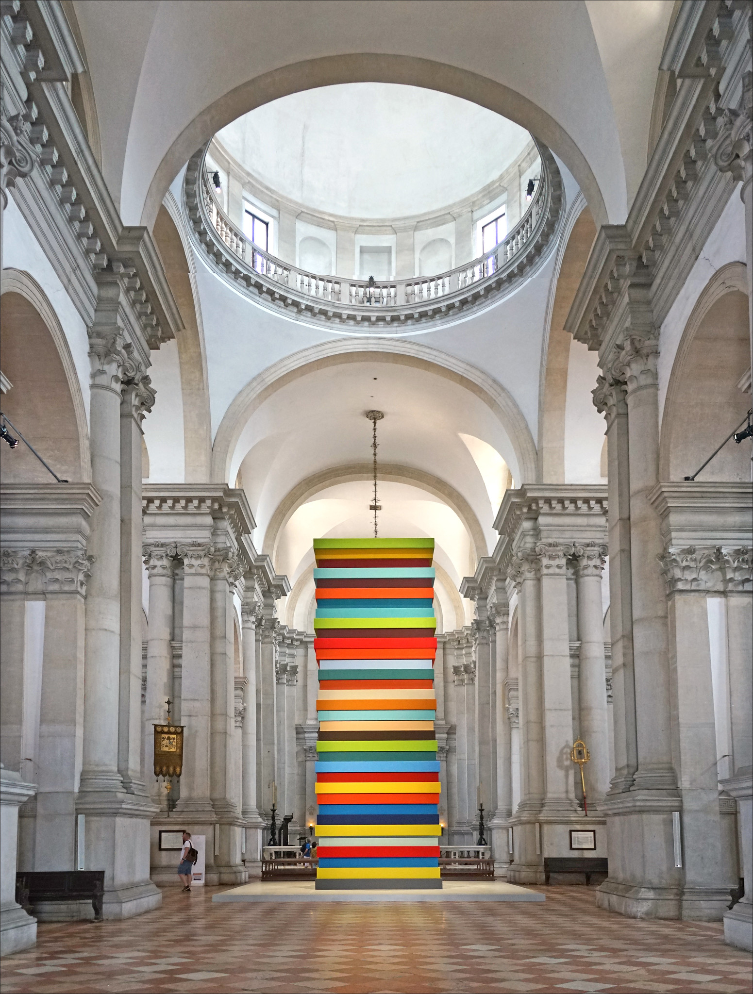 A photo of Opulent Ascension, a sculpture by Sean Scully. From the Abbey of the Basilica of San Giorgio Maggiore, Venice, Italy